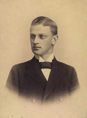 Flemming Einar Lerche (1872-1911), Danish Baron, jurist, landowner, and politician